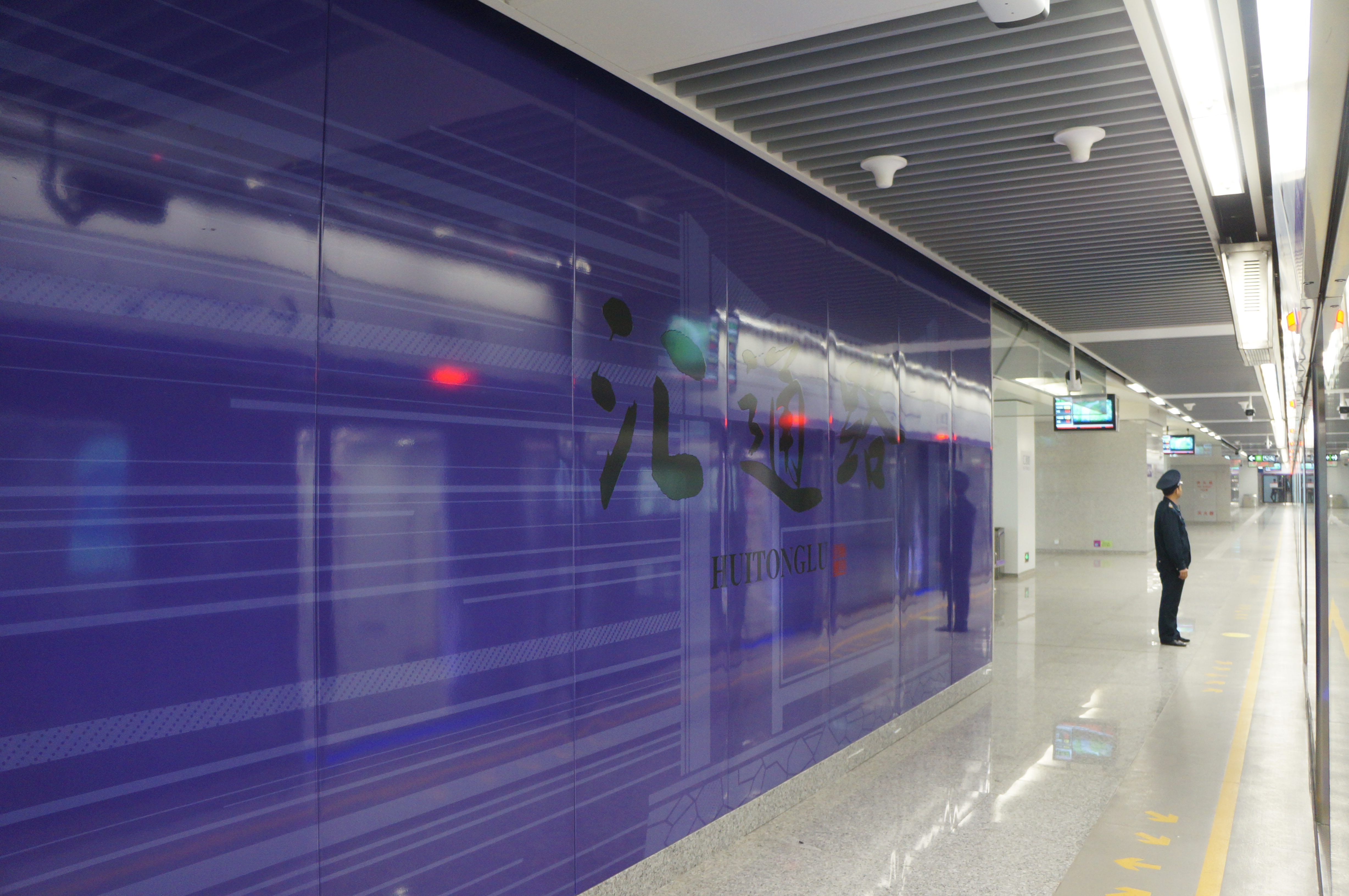 201704 Huitonglu Station